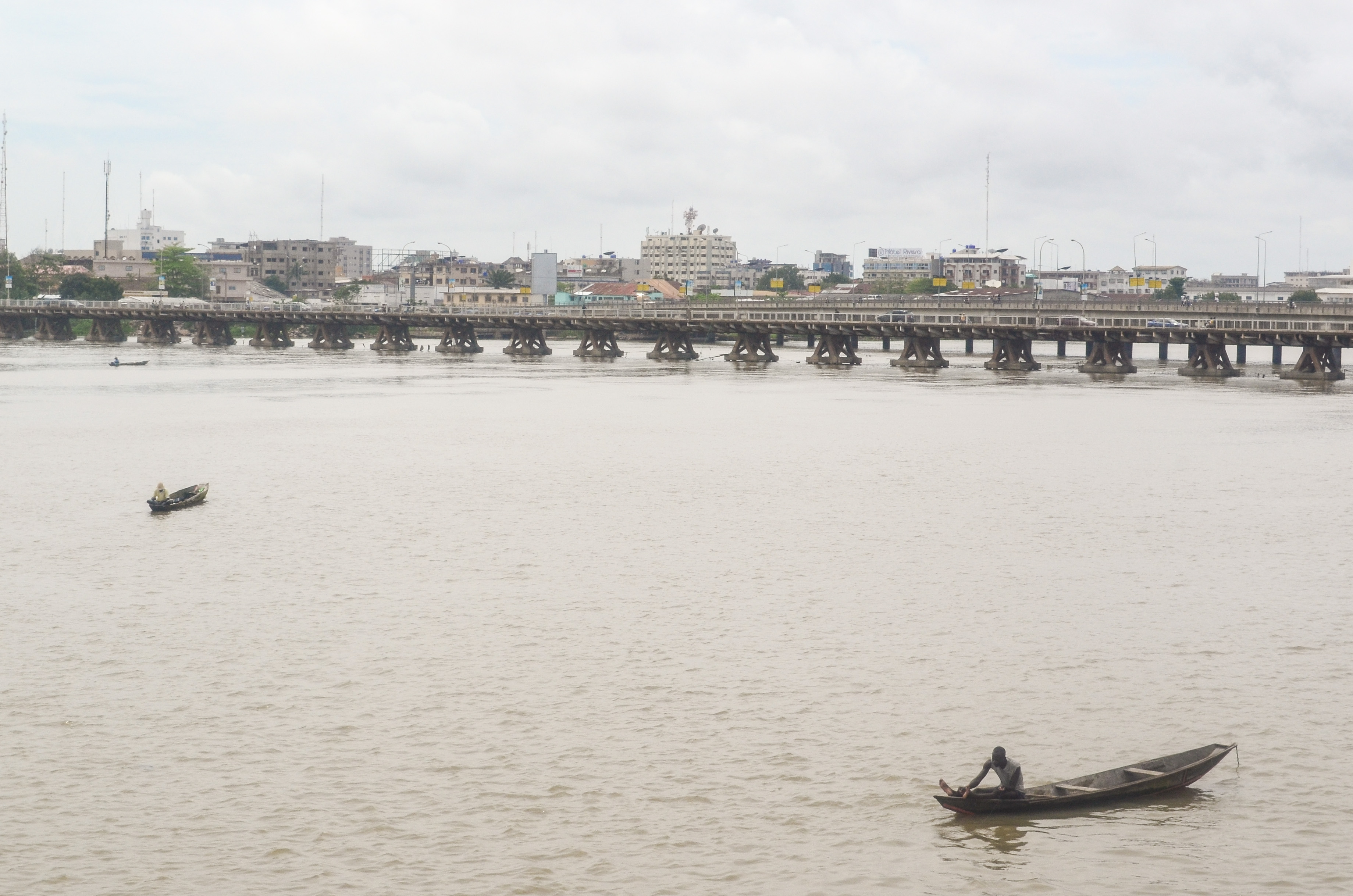 Taken on 05 October 2013 in Benin around Ganvié : Cycling Africa beyond mountains and deserts until Cape Town